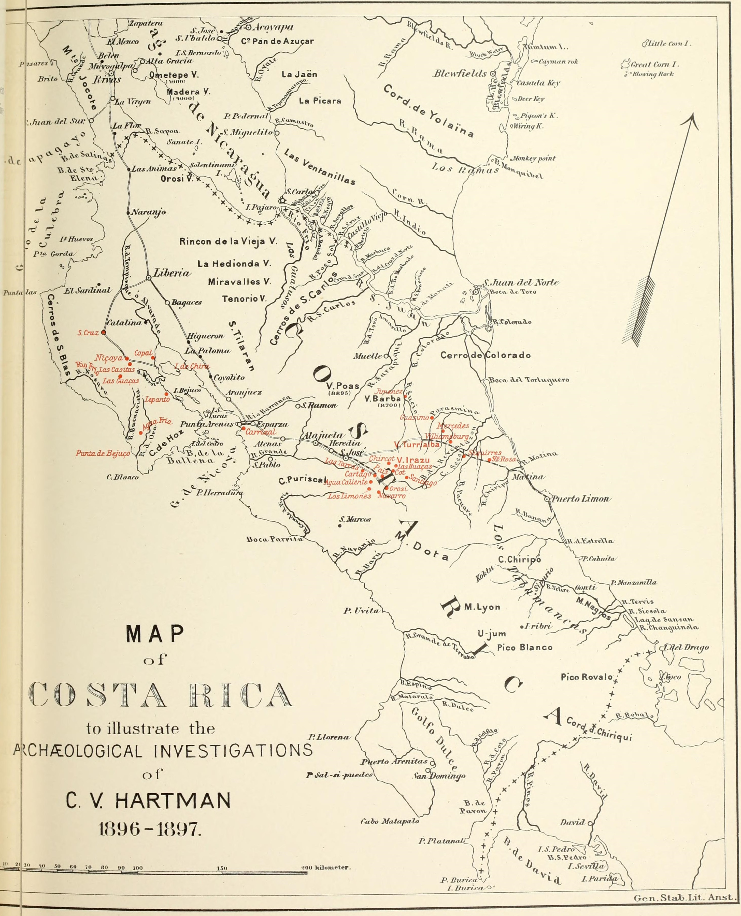 Map of Costa Rica to illustrate the Archaeological investigations of C. V. Hartman 1896-1897.